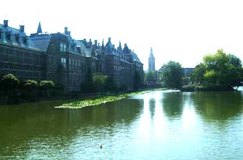 This image was taken by me, Patrick Rasenberg, and is released for all use by anyone in the world